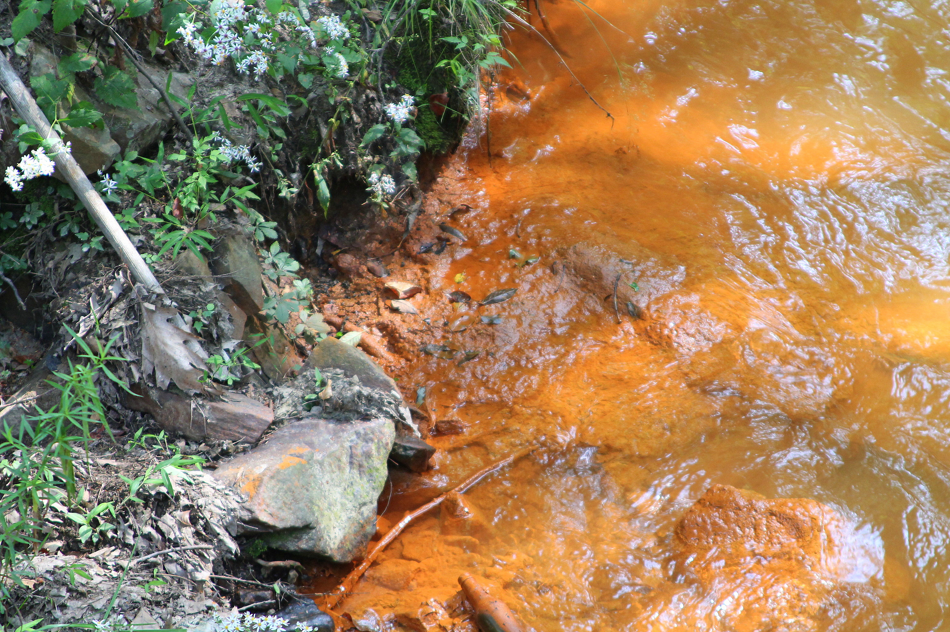 Iron precipitate on Quaker Run, caused by acid mine drainage